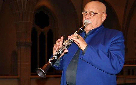 Author: Marc Rohde (who I am)